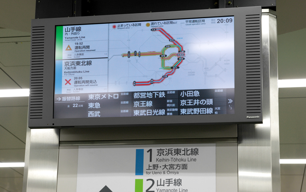 A information display of Akihabara Station